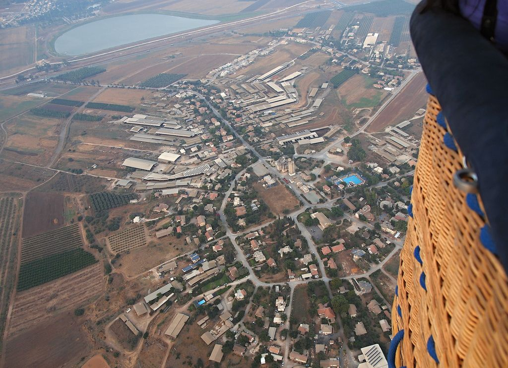 View on Kfar Yehezkel from a basket of a hot air balloon.